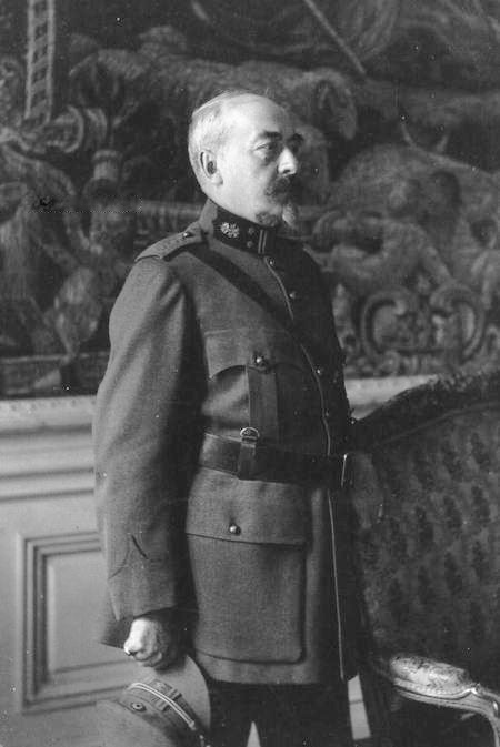 Edouard Empain